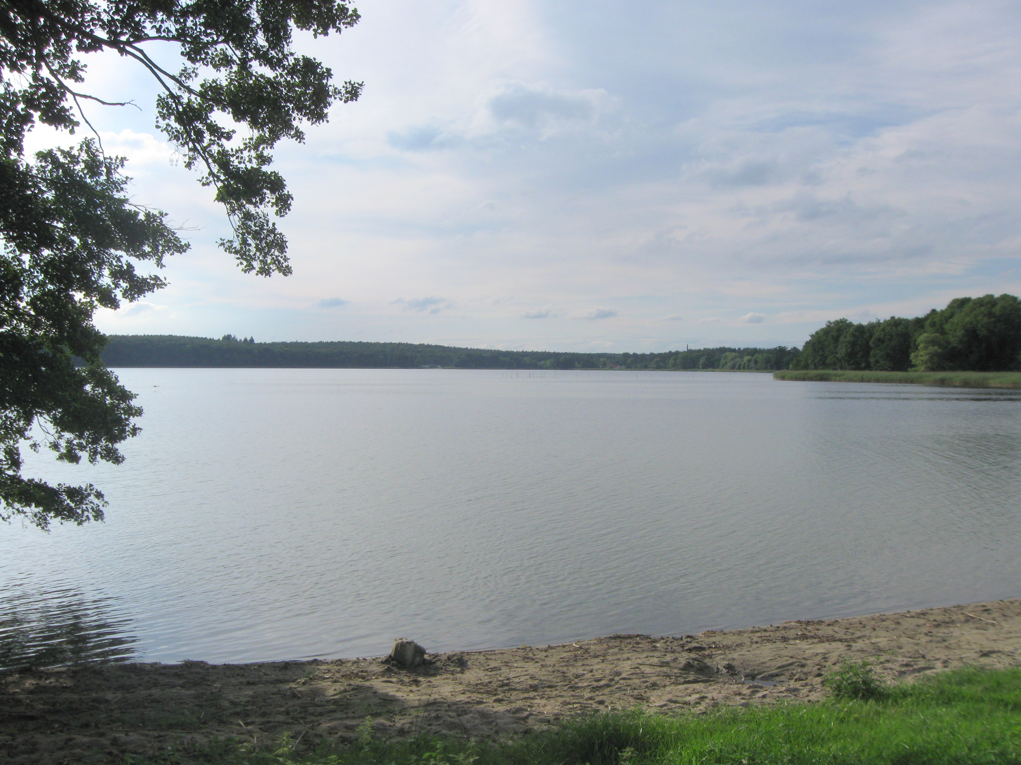 The lake Groß Labenzer See from the South (Gross Labenz)